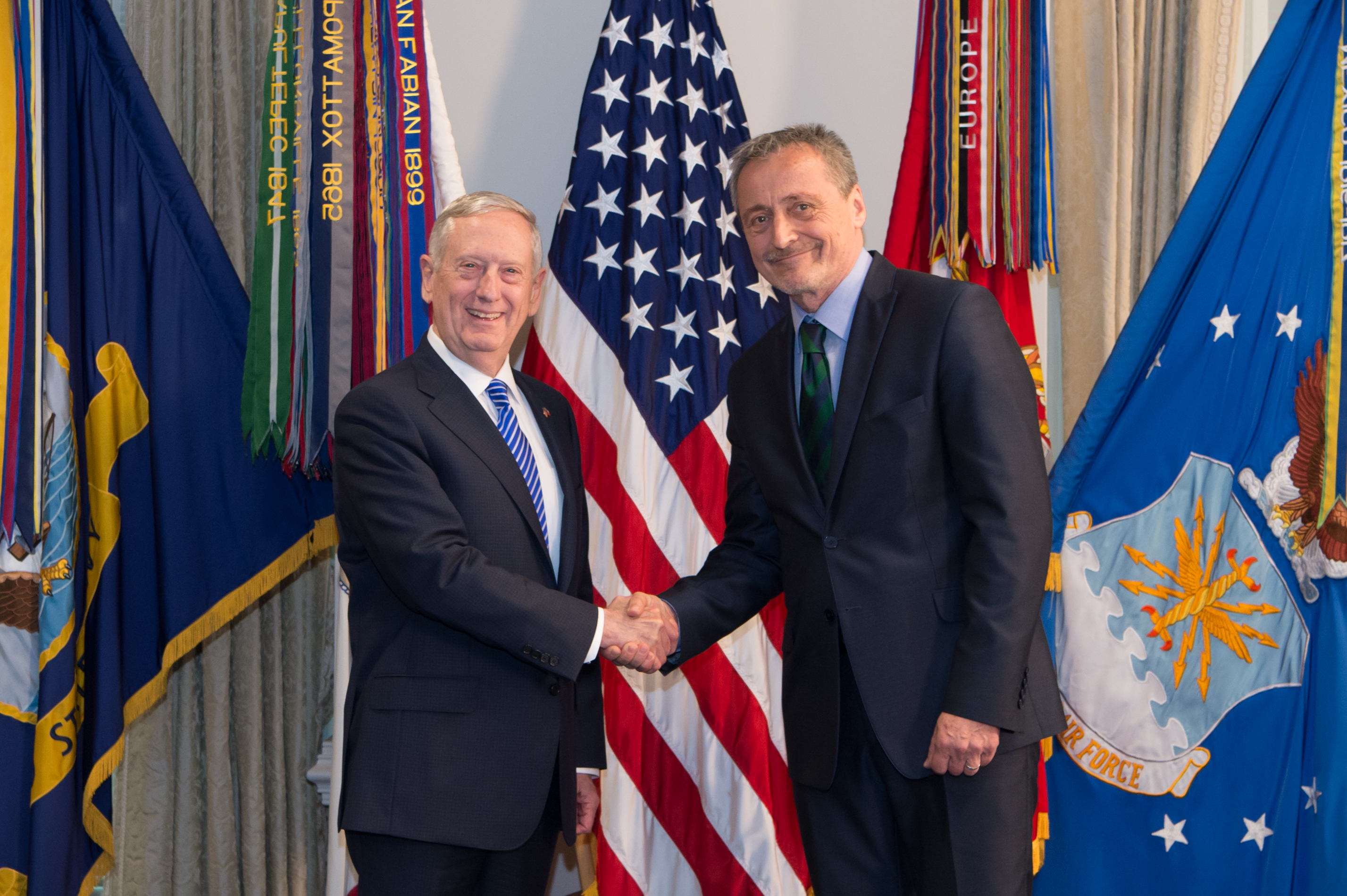 Defense Secretary Jim Mattis stands with the Minister of Defence for the Czech Republic Martin Stropnický before a meeting at the Pentagon in Washington, D.C., May 2, 2017. (DOD photo by Army Sgt. Amber I. Smith)